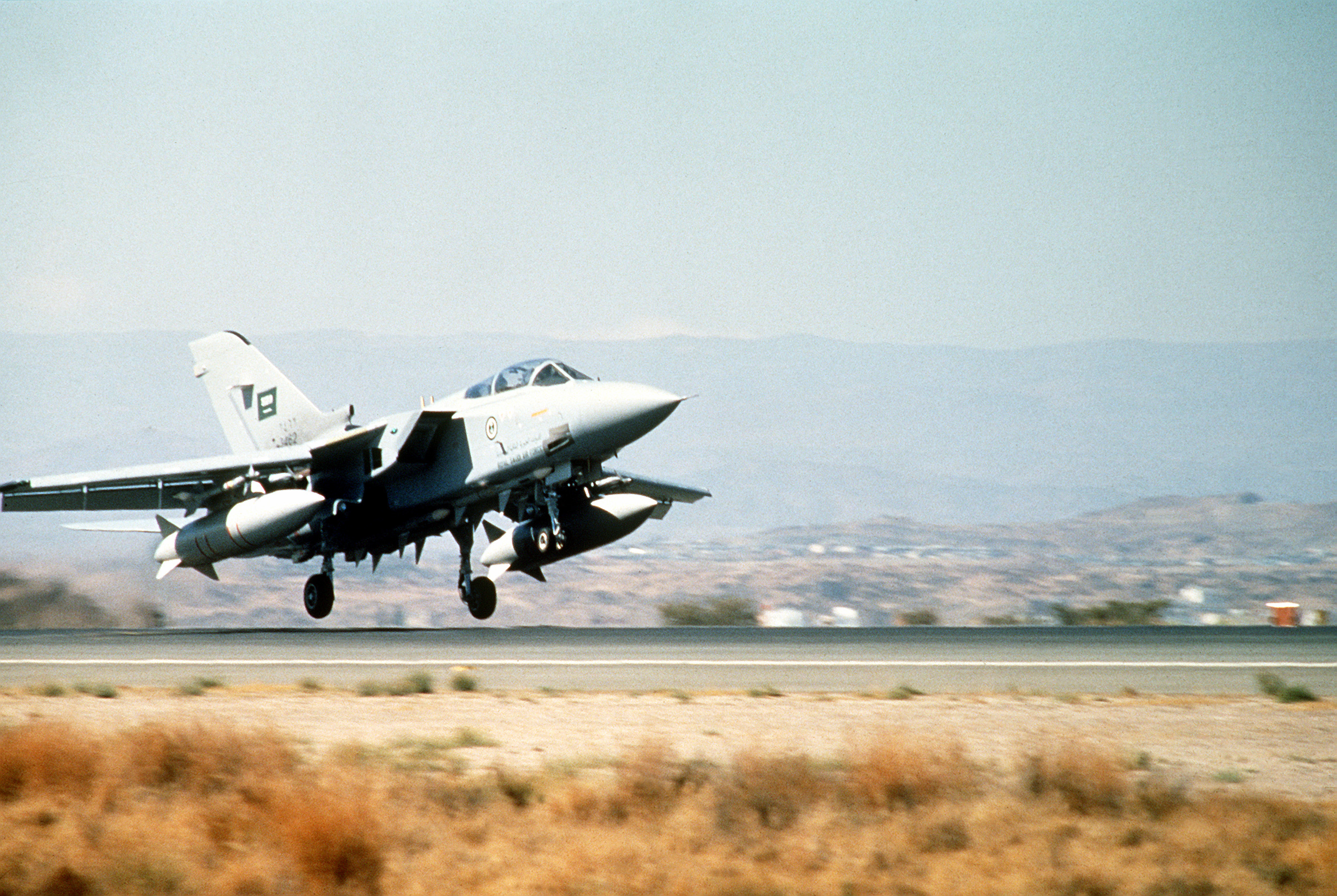 A Panavia Tornado F.3 aircraft of the Royal Saudi Air Force takes off during Operation Desert Shield in 1990-1991. Note: the date given is 13 May 1992, but either the photo was taken on this date or during operation "Desert Shield", which lasted from August 1990 to January 1991.